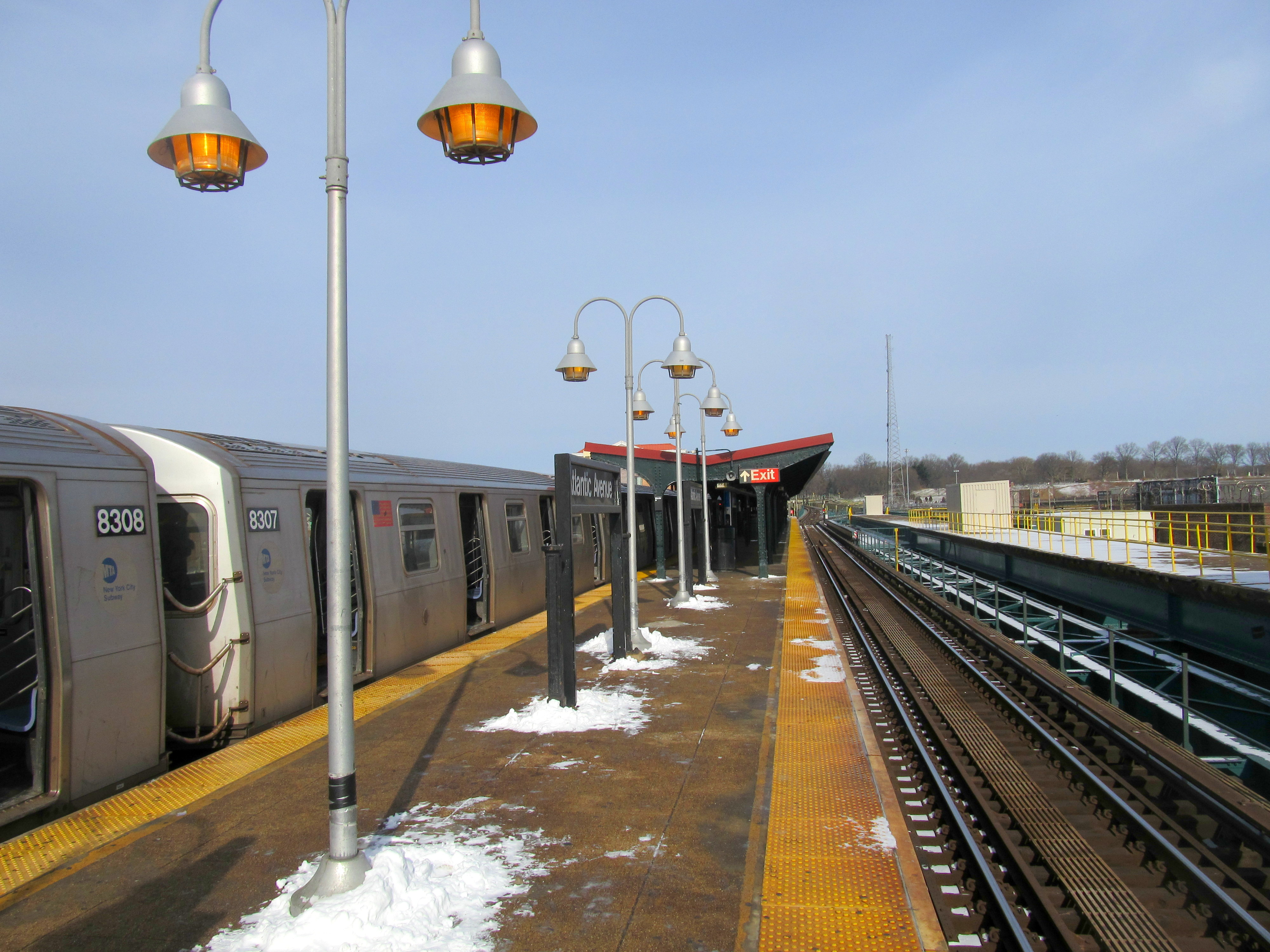 Canarsie-bound L train at Atlantic Avenue station in December 2017